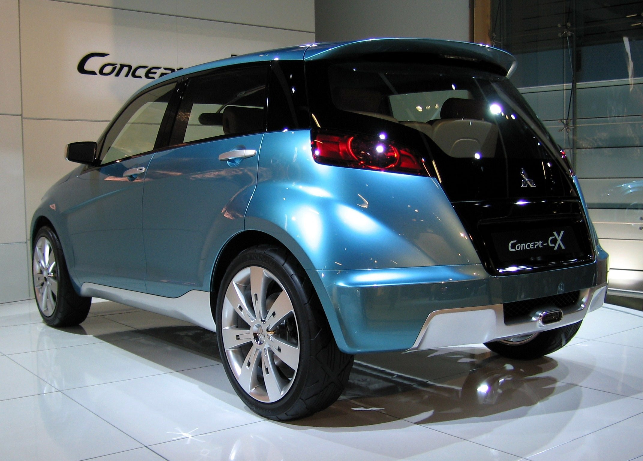 Mitsubishi Concept-cX at the IAA 2007